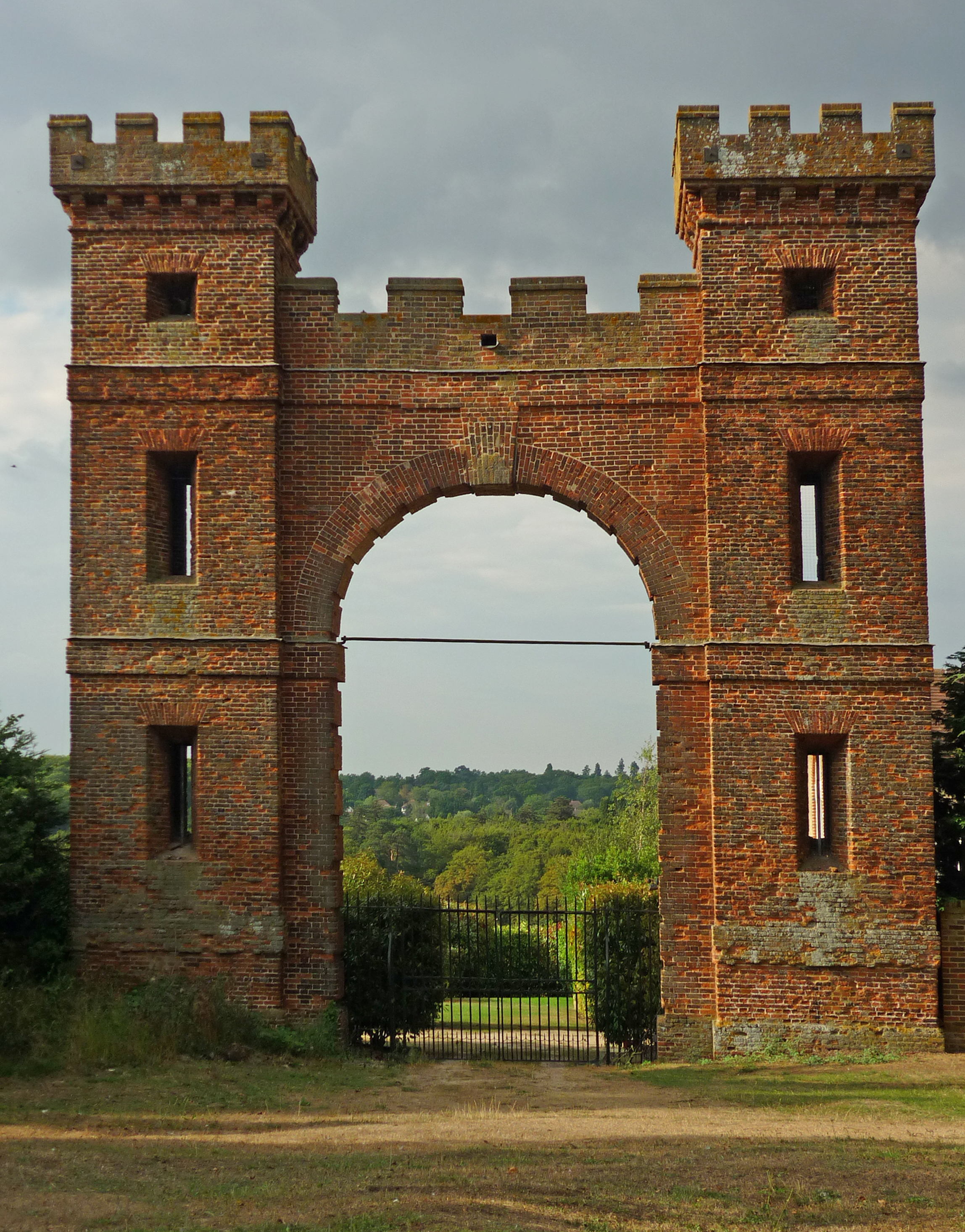 Brookmans Park Folly Arch, Hertfordshire